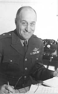 Major General Ralph Royce, senior air staff officer, United States Army Air Forces in Australia